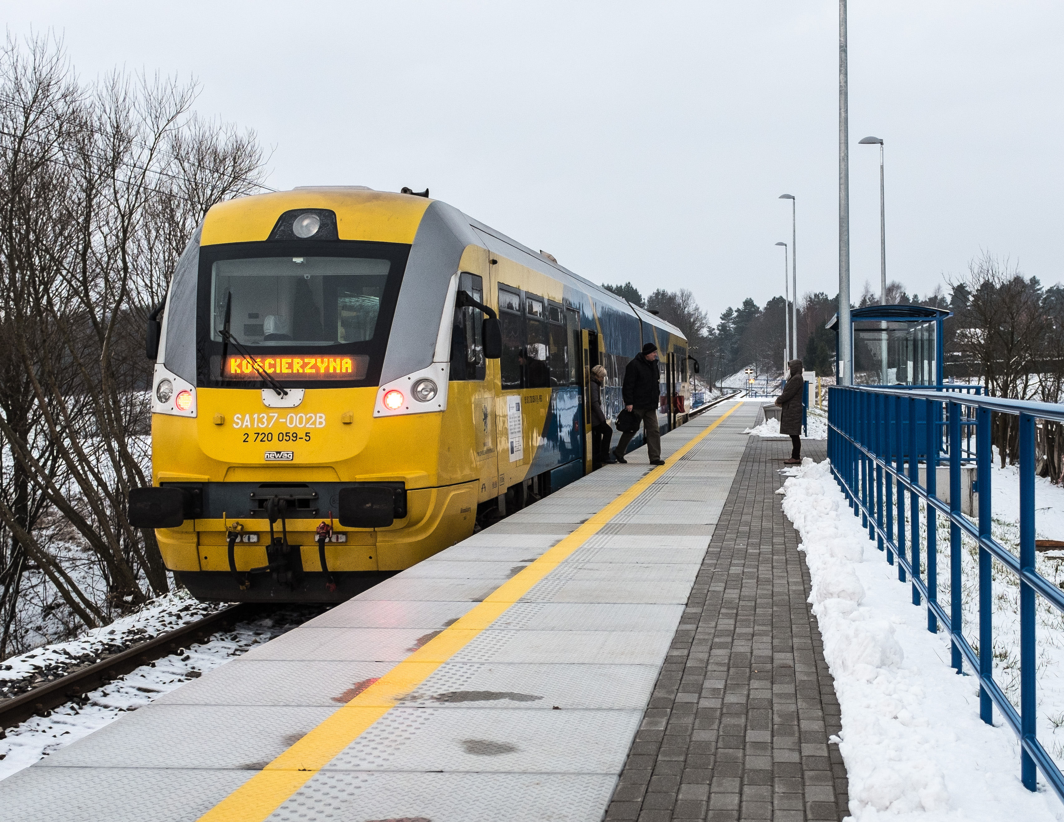 Train stop in Rębiechowo.